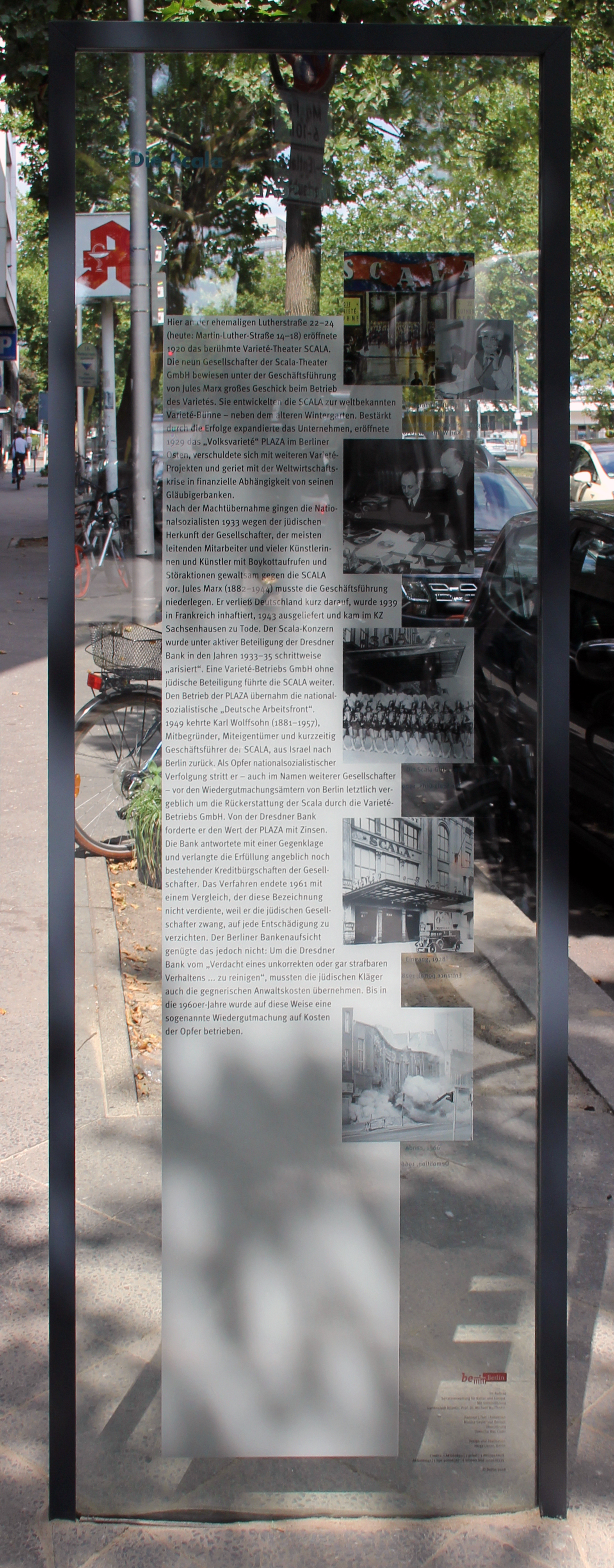 Memorial plaque, Scala, Martin-Luther-Straße 16, Berlin-Schöneberg, Deutschland